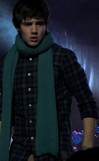 Liam Payne, One Direction, Clyde Auditorium, Glasgow, Saturday 14 January 2012